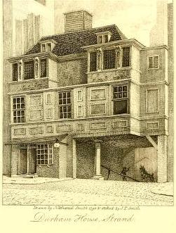 Durham House, The Strand, London, former episcopal palace.